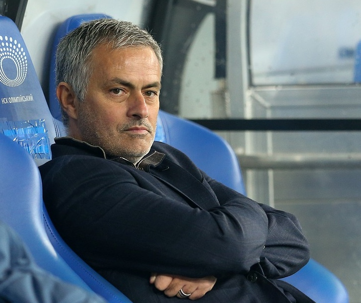 José Mourinho